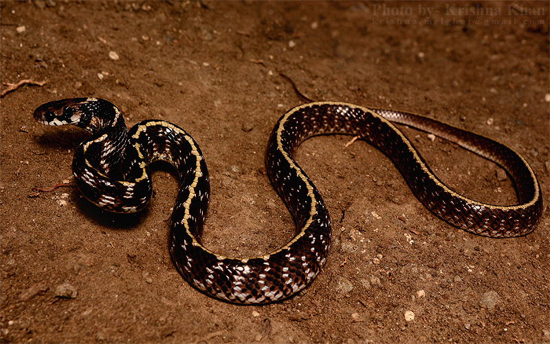 Indian egg eater snake Elachistodon westermanni by Krishna Khan Amravati